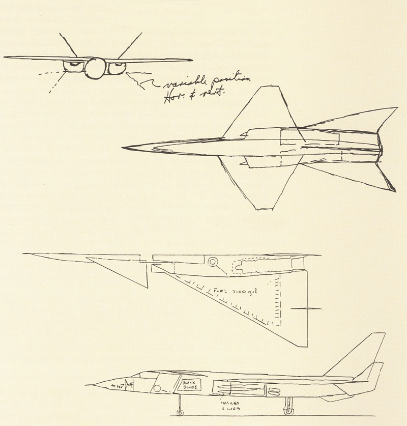 A hand drawn sketch of potential fighter designs; an early F-104-ish concept.